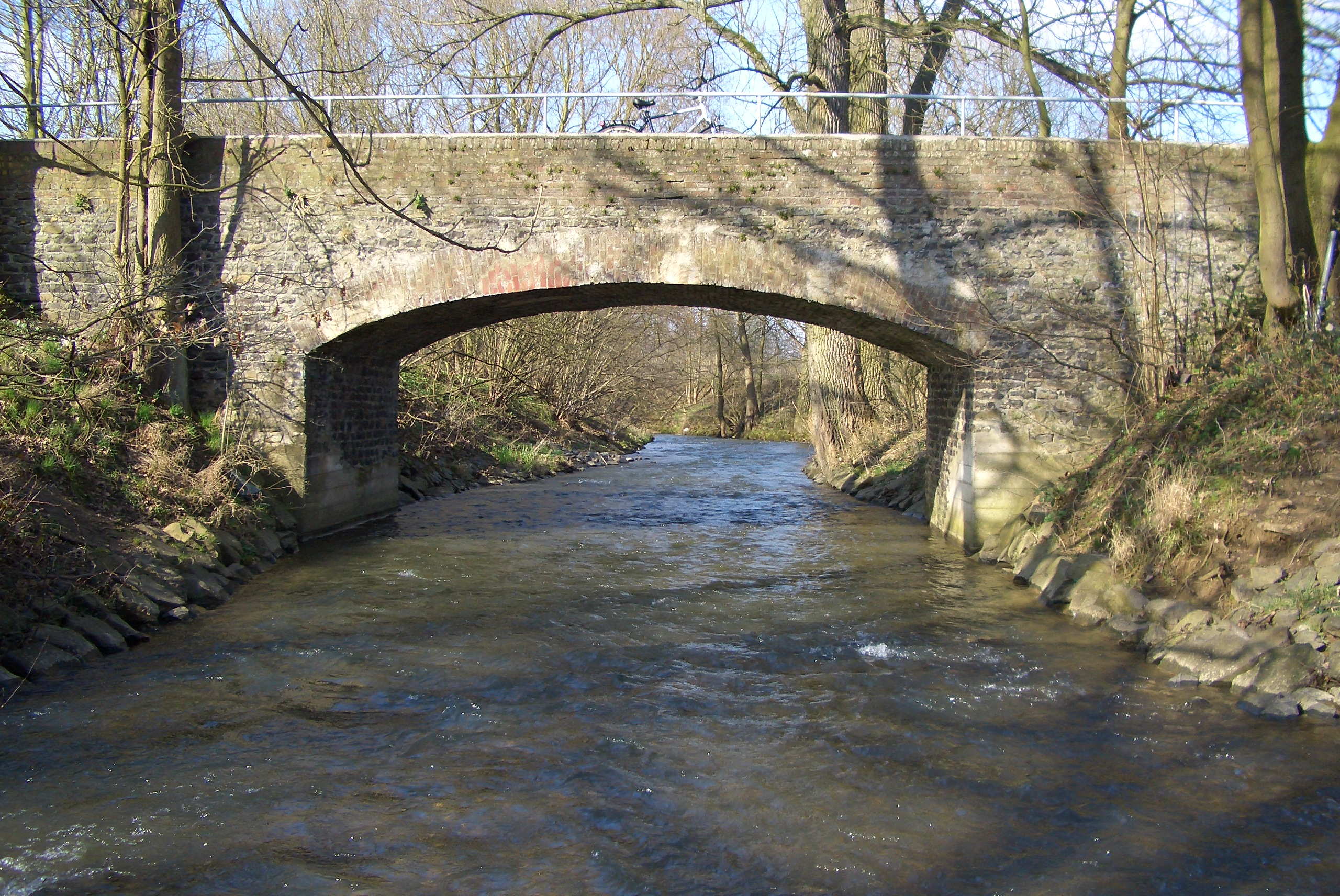 Photo of Pleisbach near Sankt Augustin-Schmerbroich, Germany.